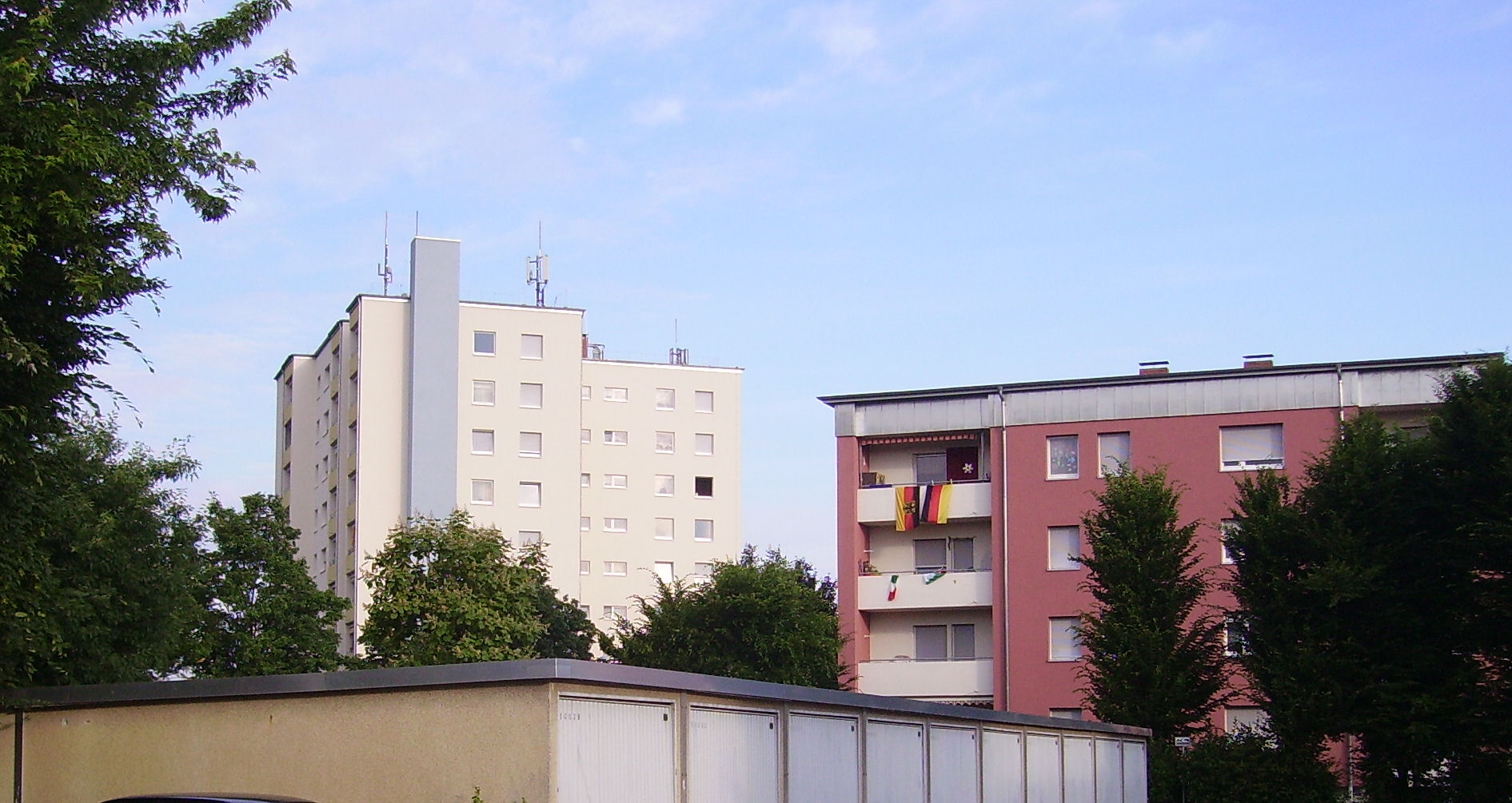 Ludwigshafen-Maudach